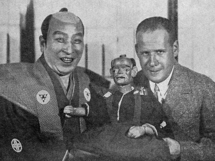 Japanese kabuki actor Sadanji Ichikawa II (left, 1880–1940) and Russian film director Sergei Eisenstein (1898–1948), Moscow, 1928